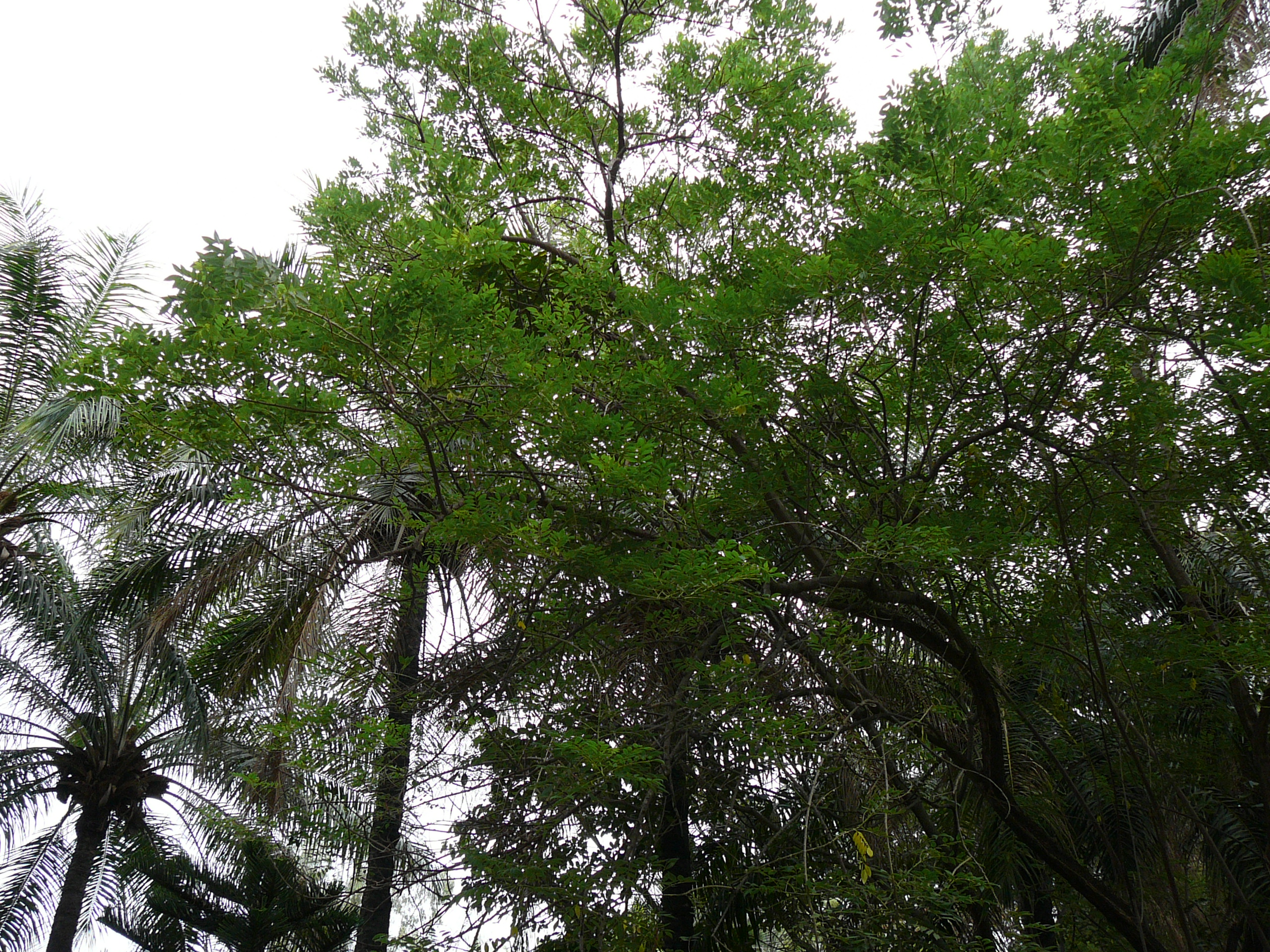 Canope of Quickstick trees